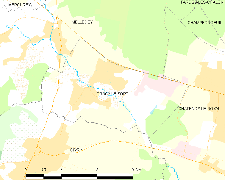 Map of French municipality